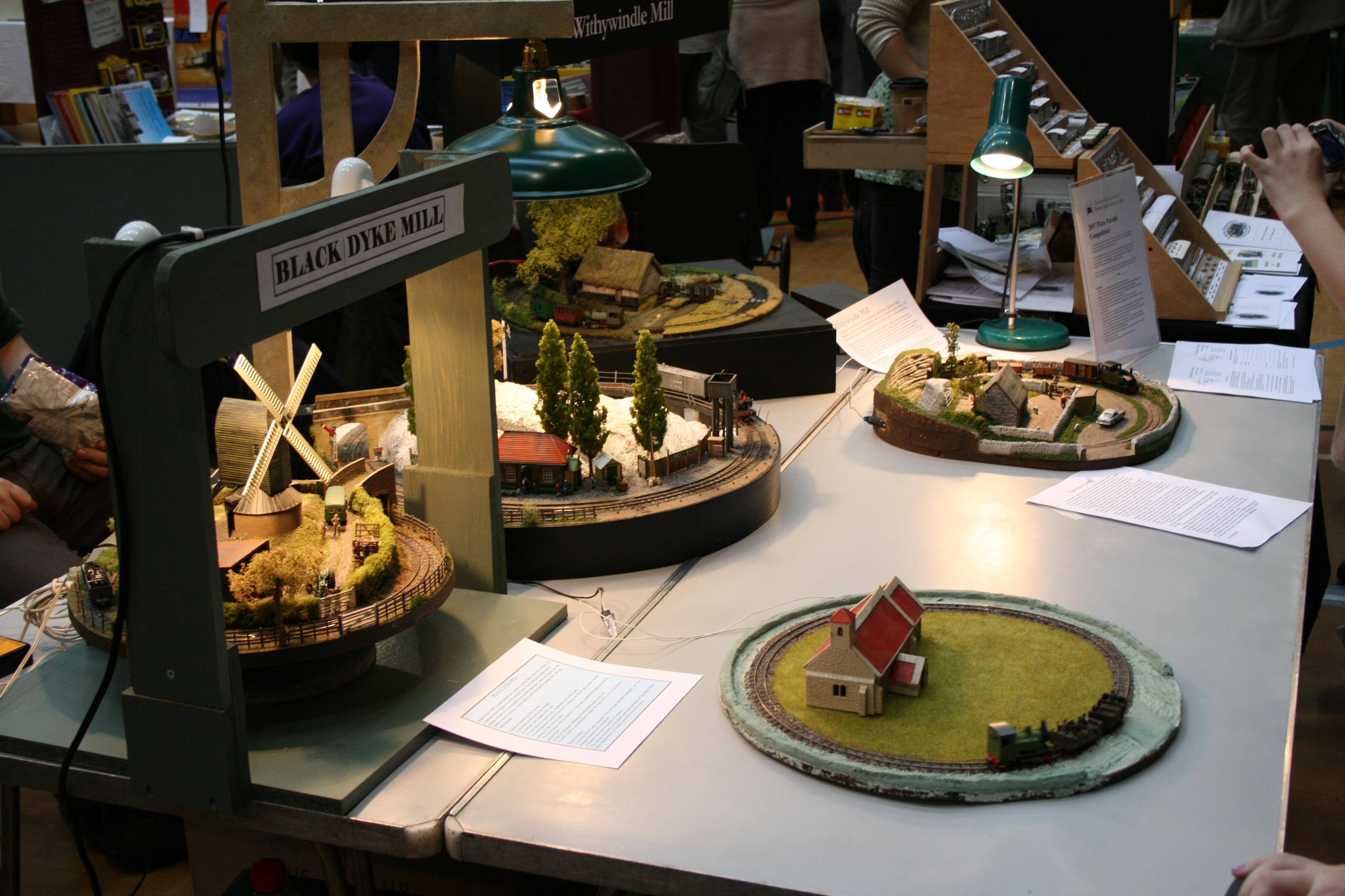 The Greenwich & District Narrow Gauge Railway Society (organisers of ExpoNG) arranged a members' competition to create a 'pizza' layout - the winner will be decided by Carl Arendt of Micro Layout Scrapbook fame.